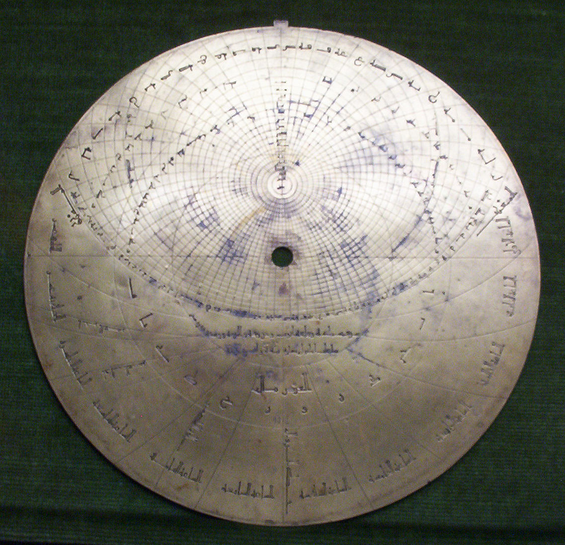 One of the plates of a planispheric astrolabe from Al-Andalus (Islamic Iberia).